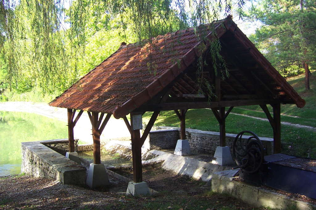 Picture of wash-house near the pond of town Montfaucon in Lot, France.